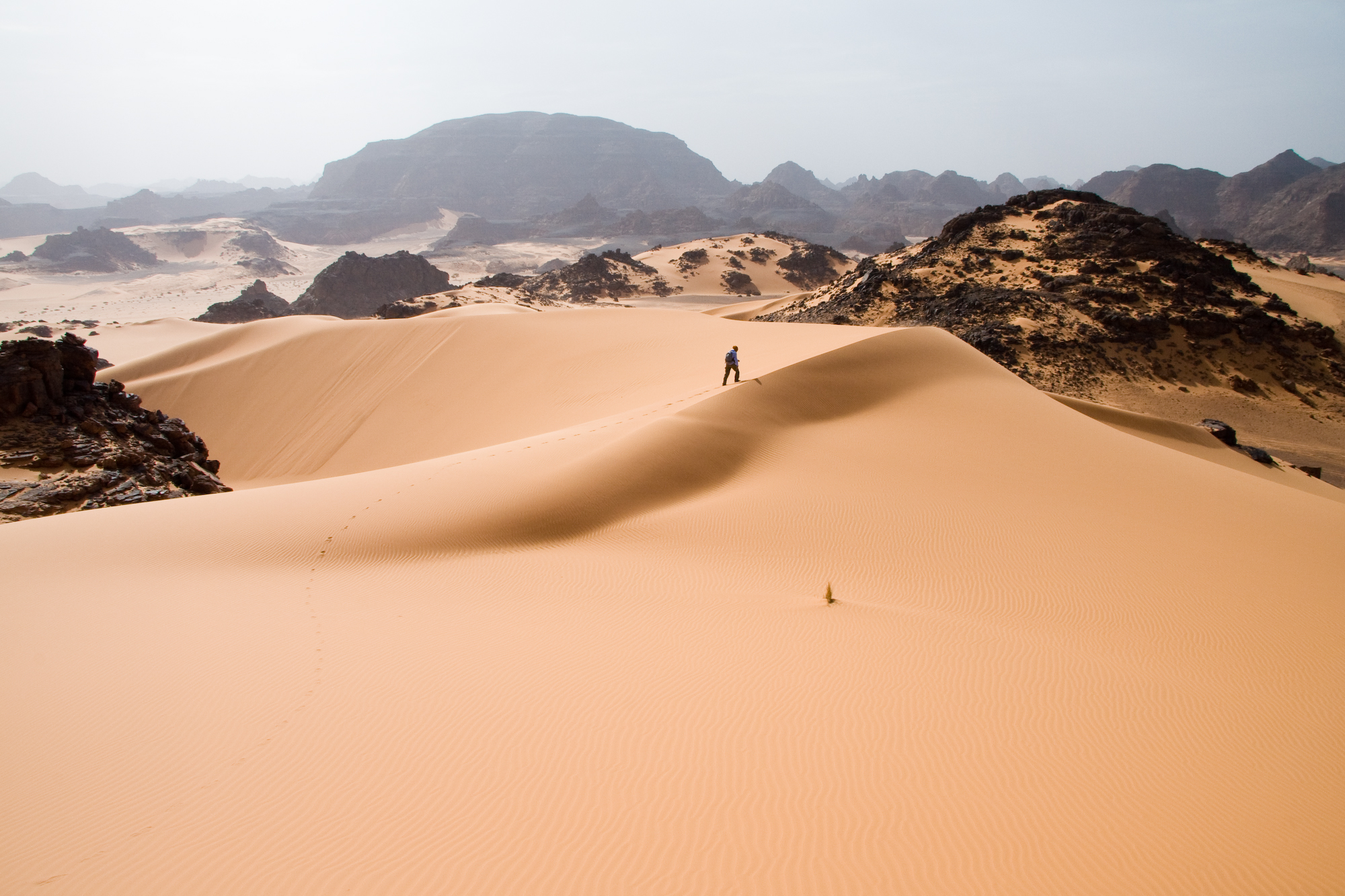 Leaving traces on soft sand dunes in Tadrart Acacus a desert area in western Libya, part of the Sahara.